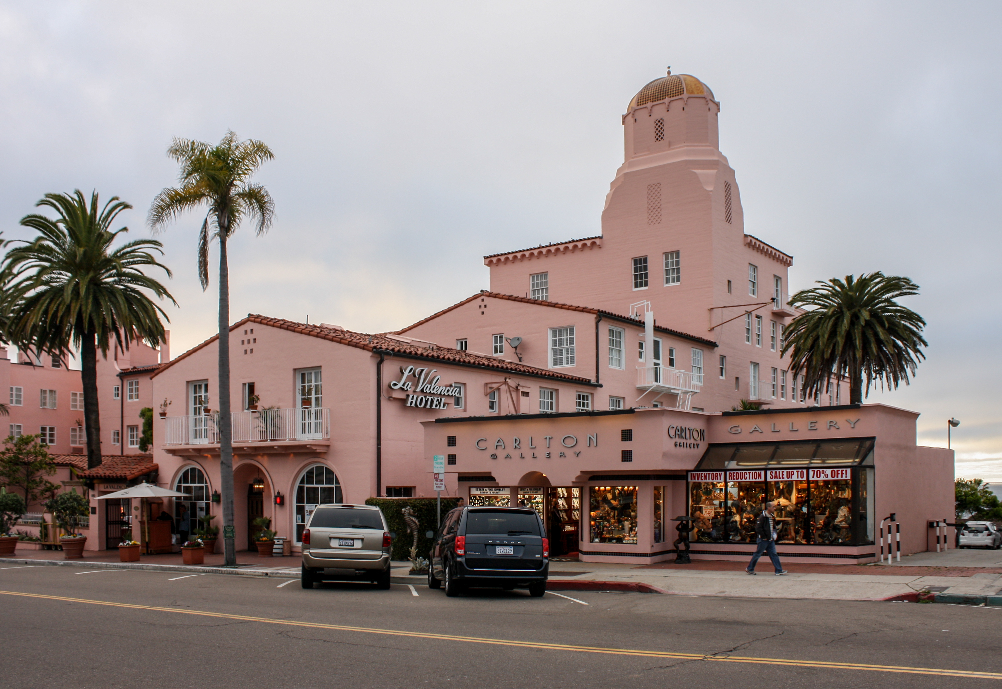 La Valencia Hotel, La Jolla, San Diego, California